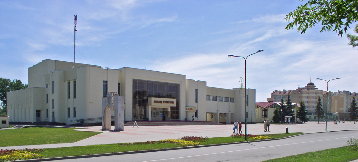 the Palace of Culture in Pruzhany, Belarus